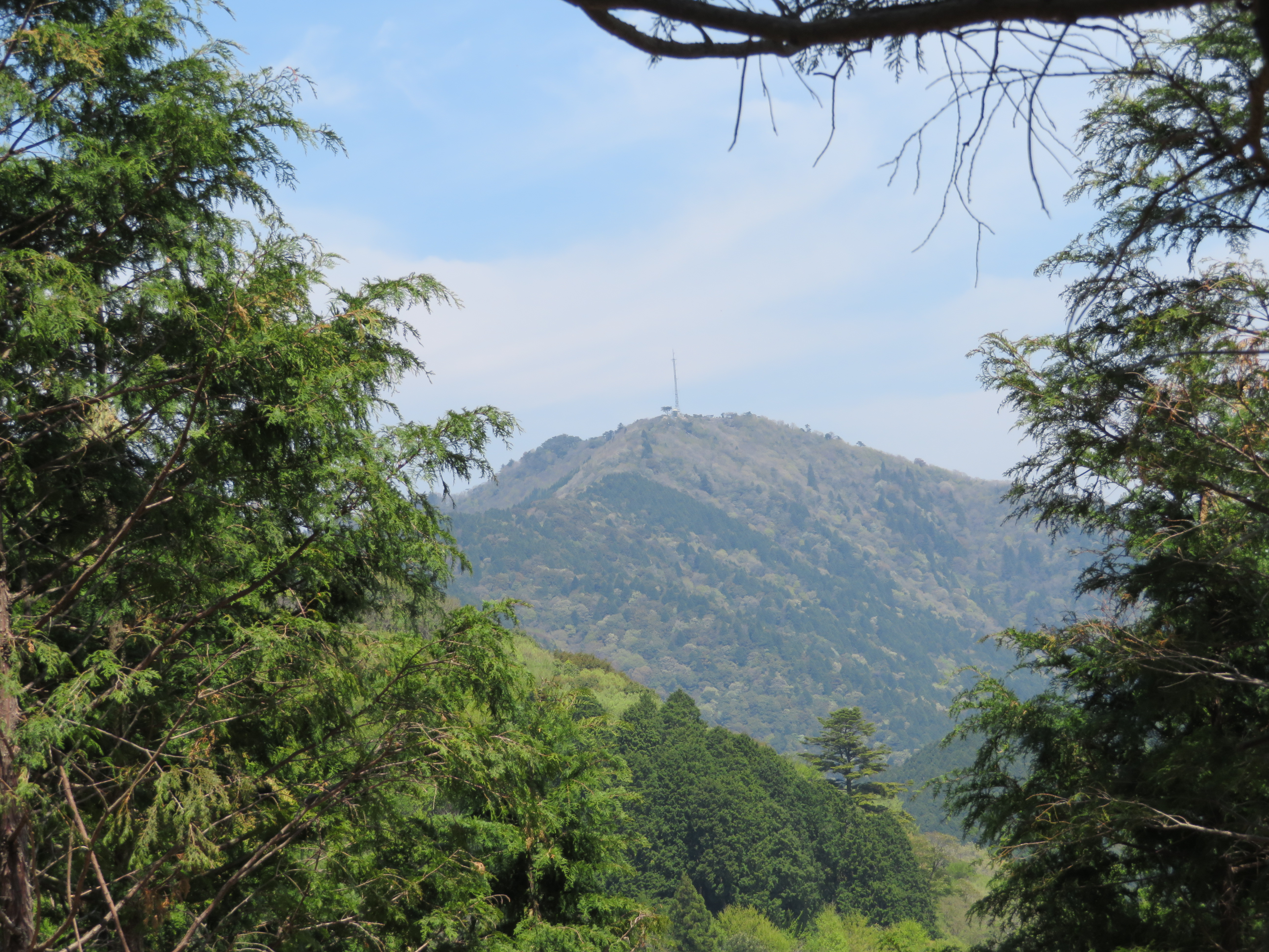 Mount Shiraki seen from the SSW, in Hiroshima City.